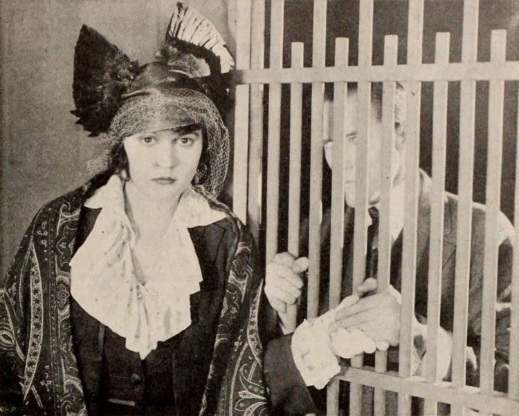 Still from the American crime drama film The Whirlpool with Alice Brady and an unidentified actor, on page actor, on page 33 of the June 29, 1918 Exhibitors Herald.